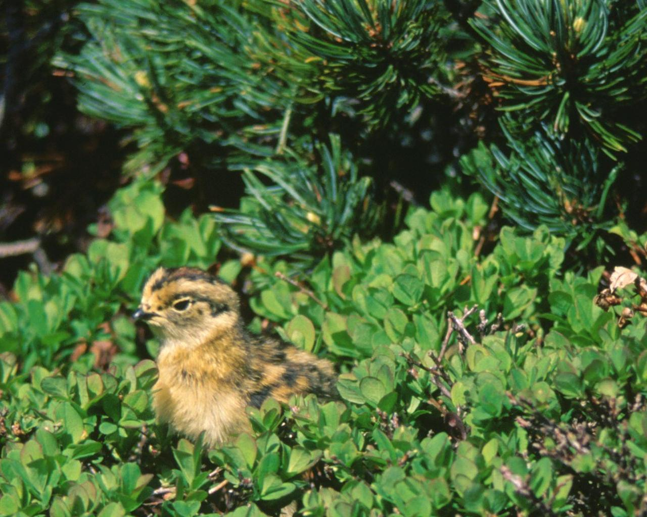 Rock Ptarmigan (Lagopus muta japonica, Lagopus mutus japonicus), juvenile in Mount Shiomi Japan.